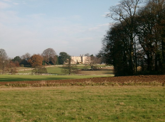 Hazlewood Castle, previously home of the Vavasour family, now a country house hotel.